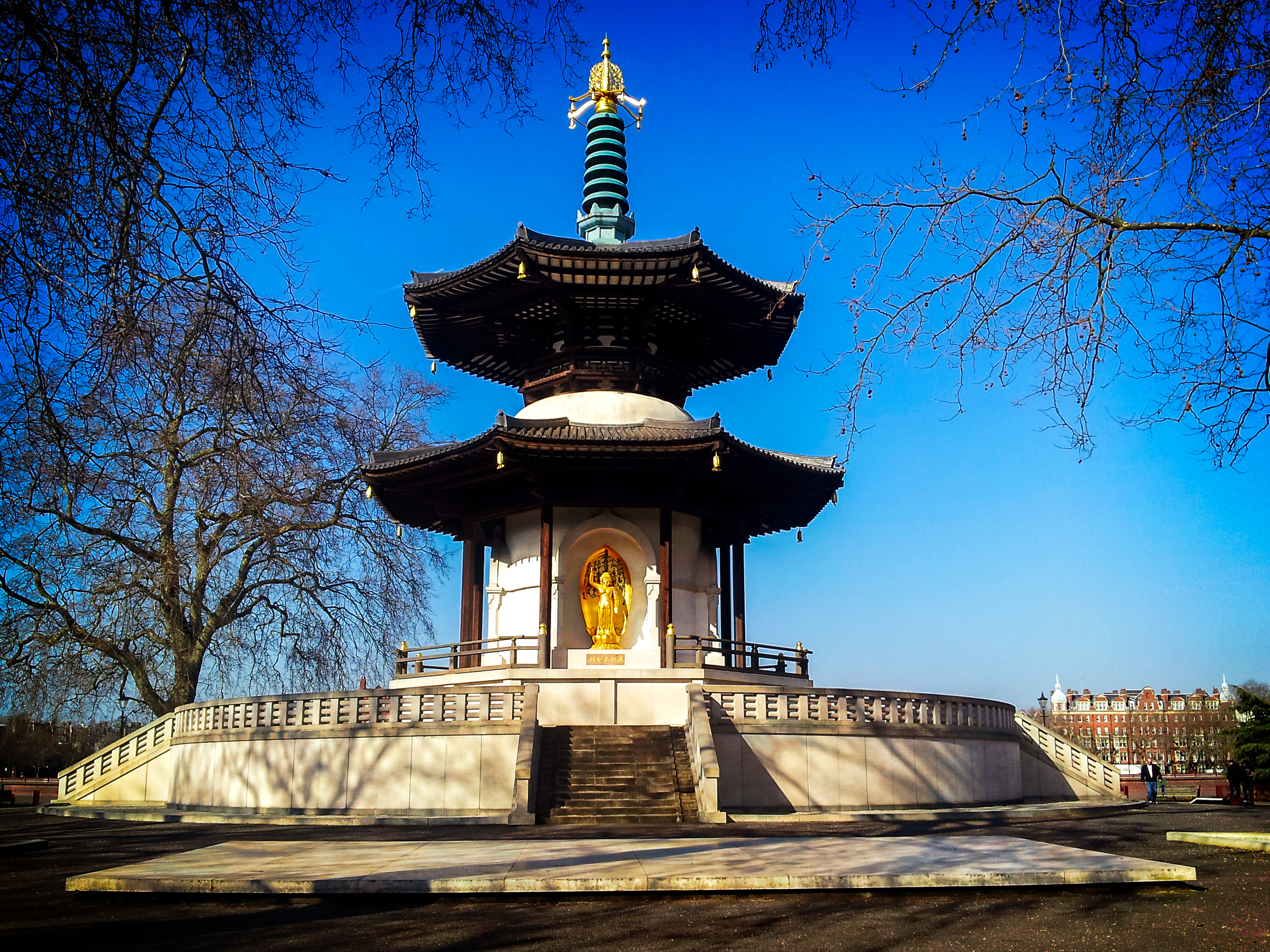 Peace Pagoda at Battersea Park, London.